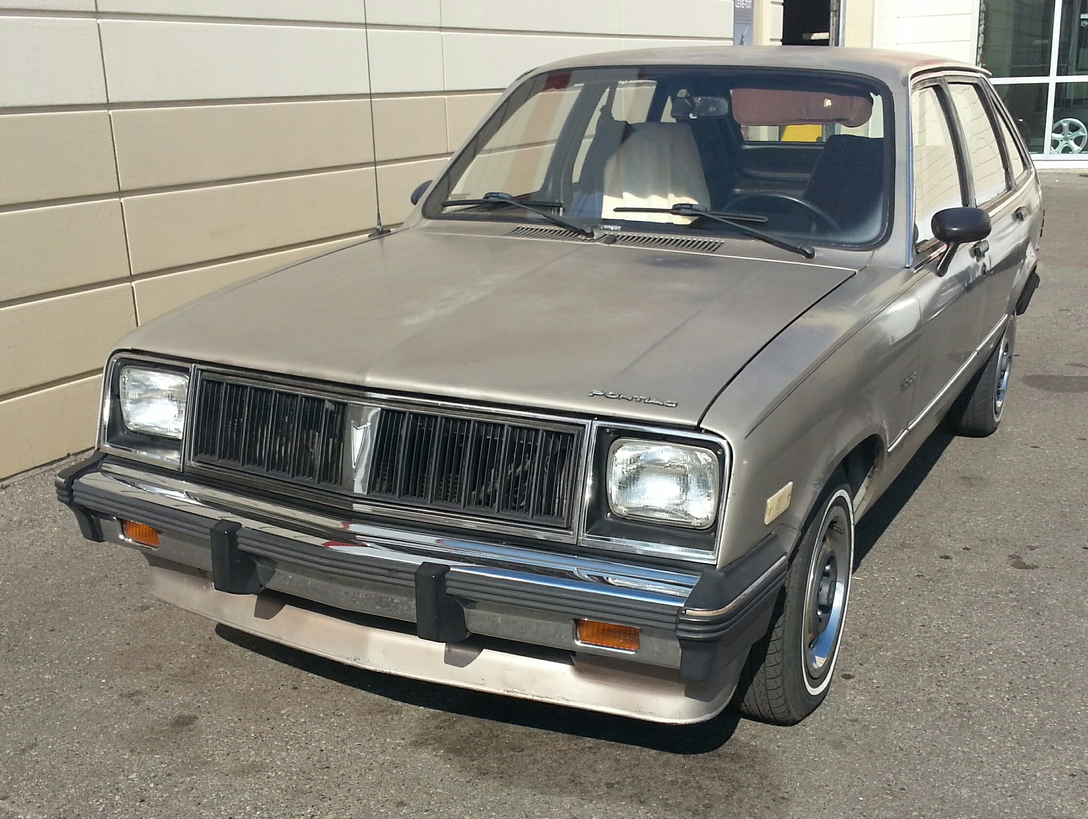 Pontiac Acadian photographed in Dorval, Quebec, Canada.